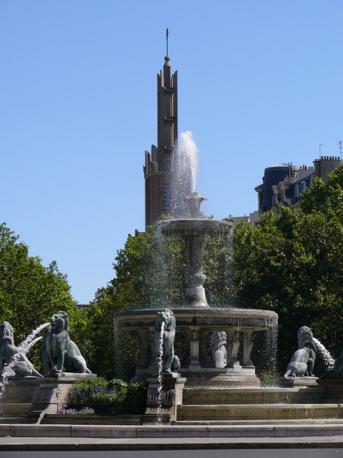 Holy Spirit's church in Paris (Paris XII, France)